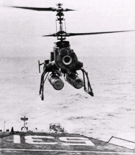 A Gyrodyne QH-50 DASH-drone with torpedoes over the flight deck of the U.S. Navy Fletcher-class destroyer USS Hazelwood (DD-531). Hazelwood was assigned to the Destroyer Development Division, her primary research and development work involved the testing of the Drone Anti-Submarine Helicopter (DASH) from 1958 to 1965.